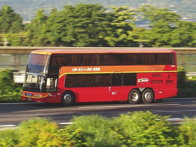 A highway Ichibata Bus car "Susanoo". Photograph taken by Cassiopeia sweet. Originally uploaded to Japanese Wikipedia by the photographer.